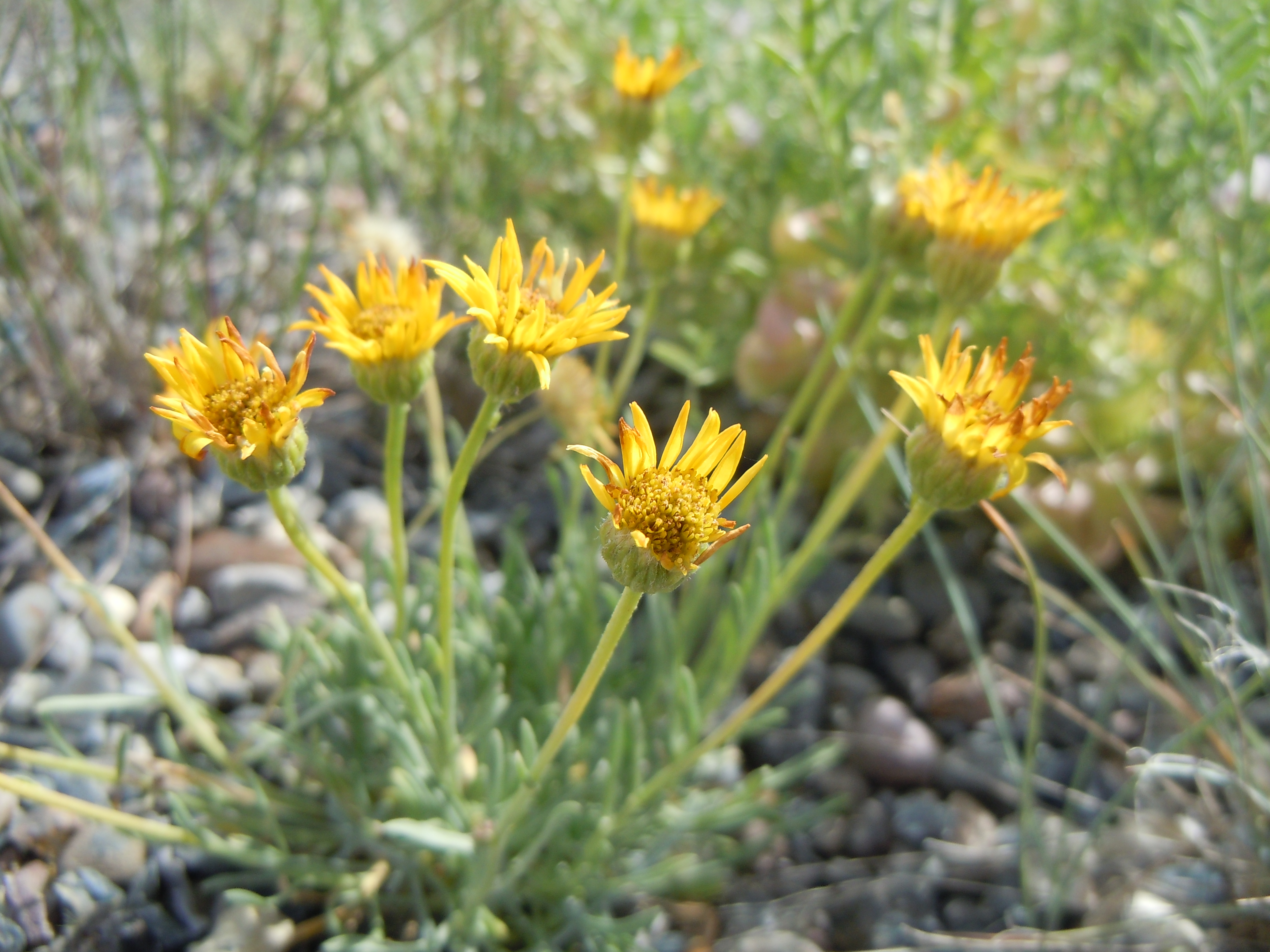 Erigeron linearis has been observed in this area rarely and then only along roads. Perhaps this speaks to the high immigration potential of roadsides compared to adjacent sagebrushs steppe.